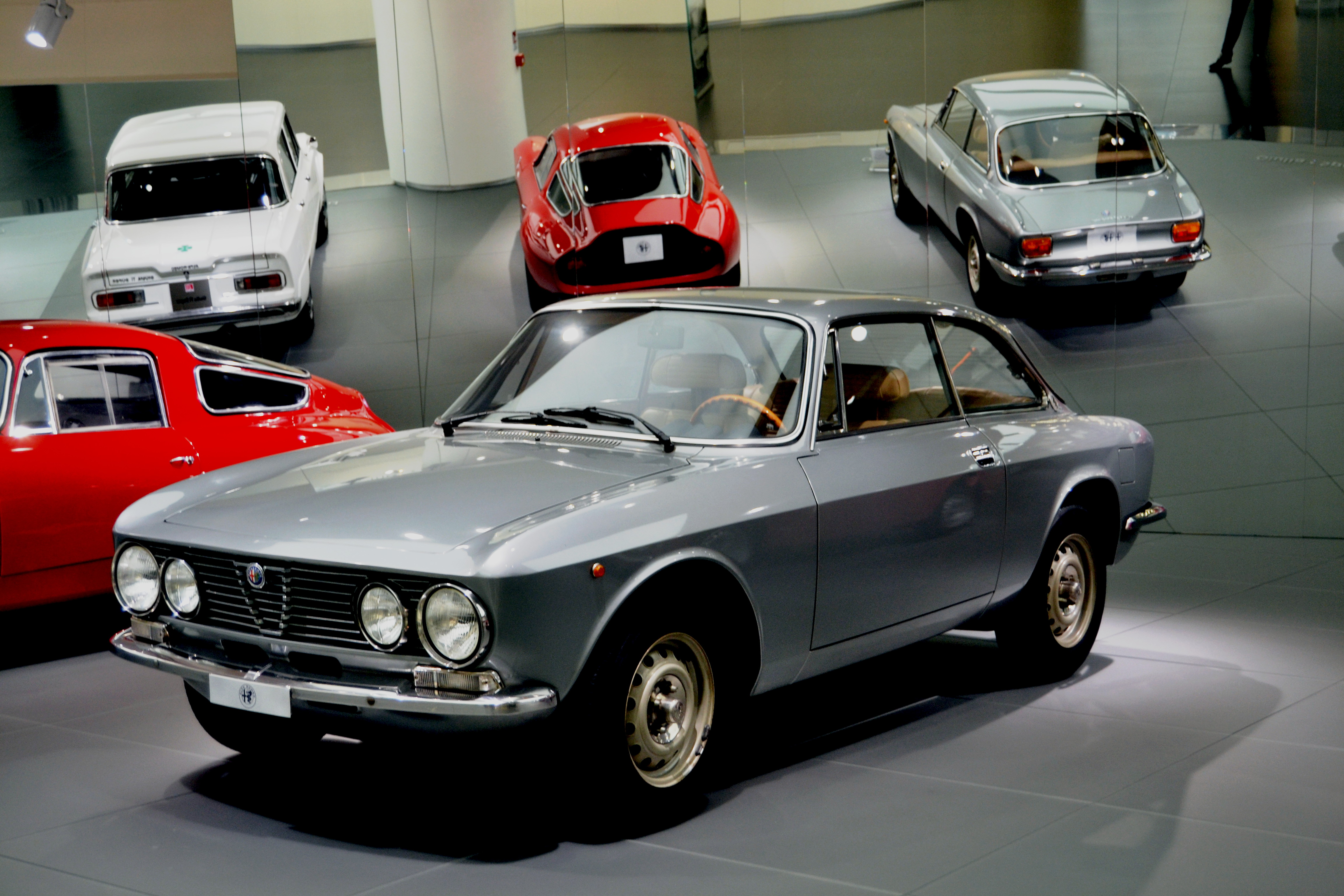 Alfa Romeo 1600 GT Junior, seen Museo Storico Alfa Romeo in Arese, Milano, Italy. File name is wrong: it's NOT a 2000 GTV but a 1750 GTV